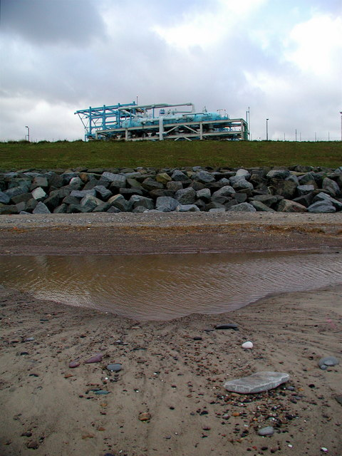 Easington Natural Gas Terminal, Easington, East Riding of Yorkshire, England.Between 1975 and 2006 the Easington gas terminal's main functions were to receive and separate natural gas from the Rough offshore field and the BP operated Amethyst field, to receive treated gas from BP's Dimlington terminal and transfer it into the National Transmission System, and to withdraw gas from the National Transmission System during periods of low gas demand and re-inject it into the Rough field for storage. In October 2006 the Easington end of Langeled was opened, a 1,200 kilometre long subsea gas pipeline connecting the Ormen Lange field's gas plant at Nyhamna in Aukra, Norway, with the reception facility here in Easington. Langeled is expected to supply the UK with 20 per cent of its gas requirements for now and the near future.